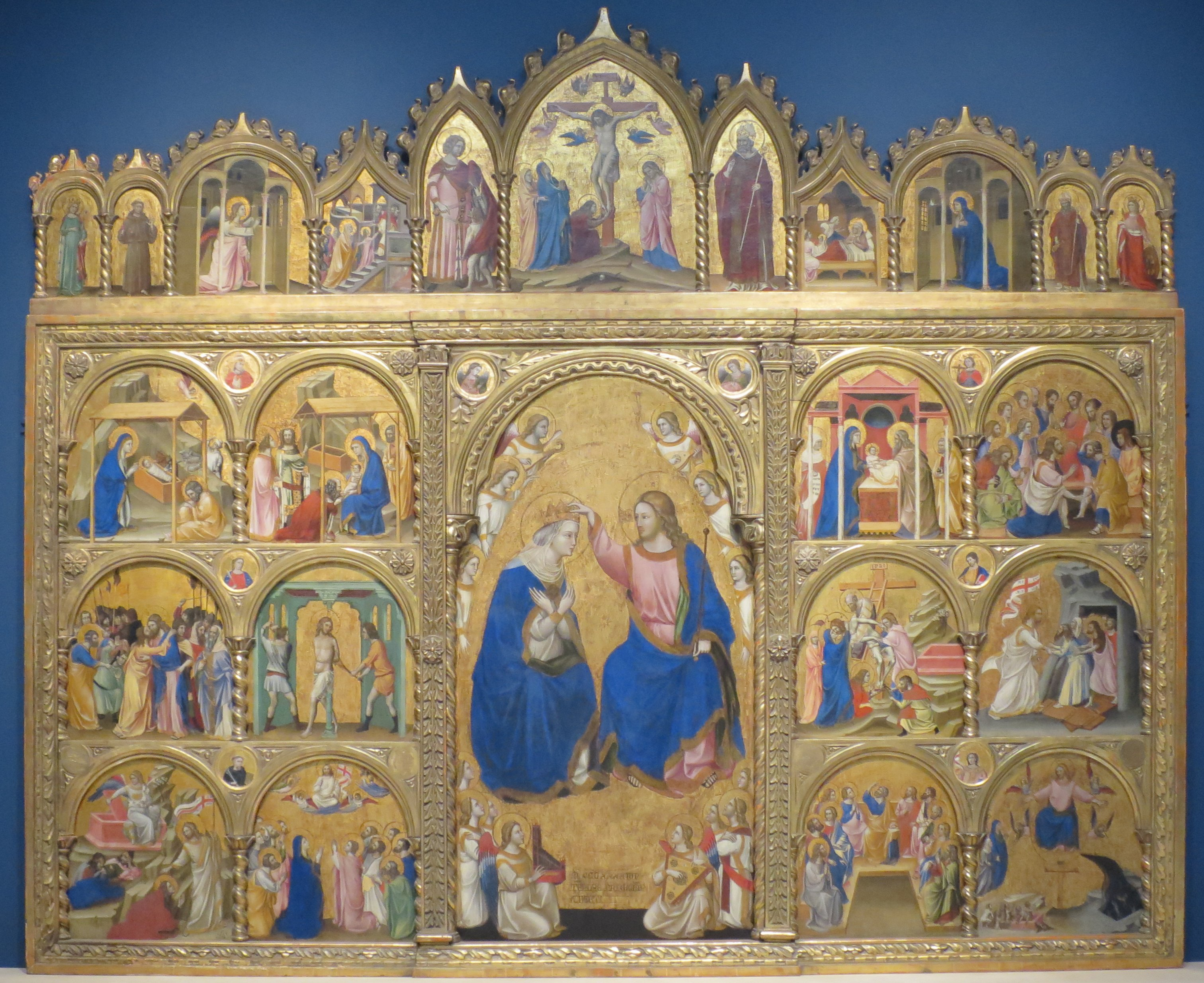 Coronation of the Virgin Altarpiece by Guariento di Arpo, 1344, tempera and gold leaf on panel, Norton Simon Museum